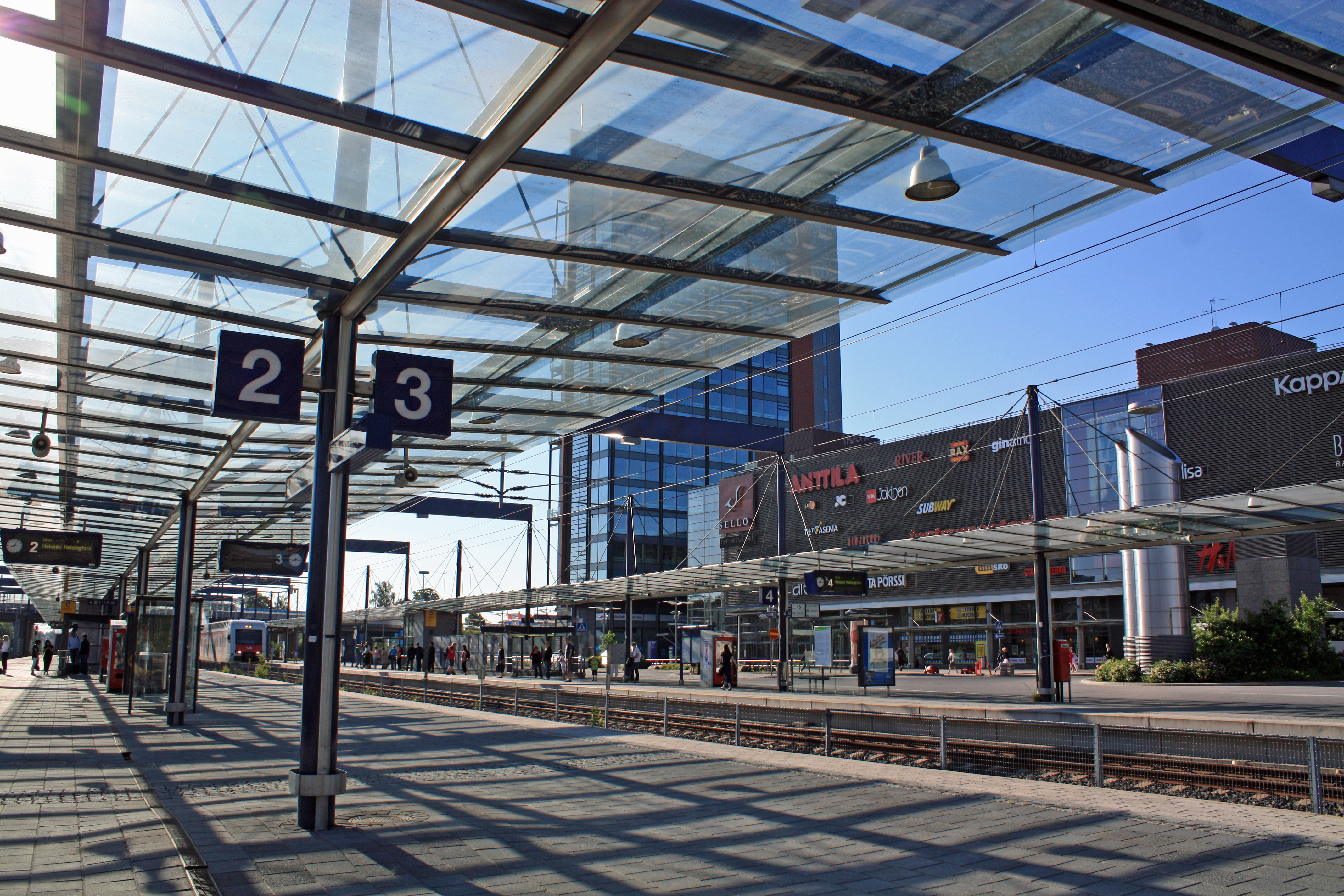 Leppävaara railway station in Espoo, Finland